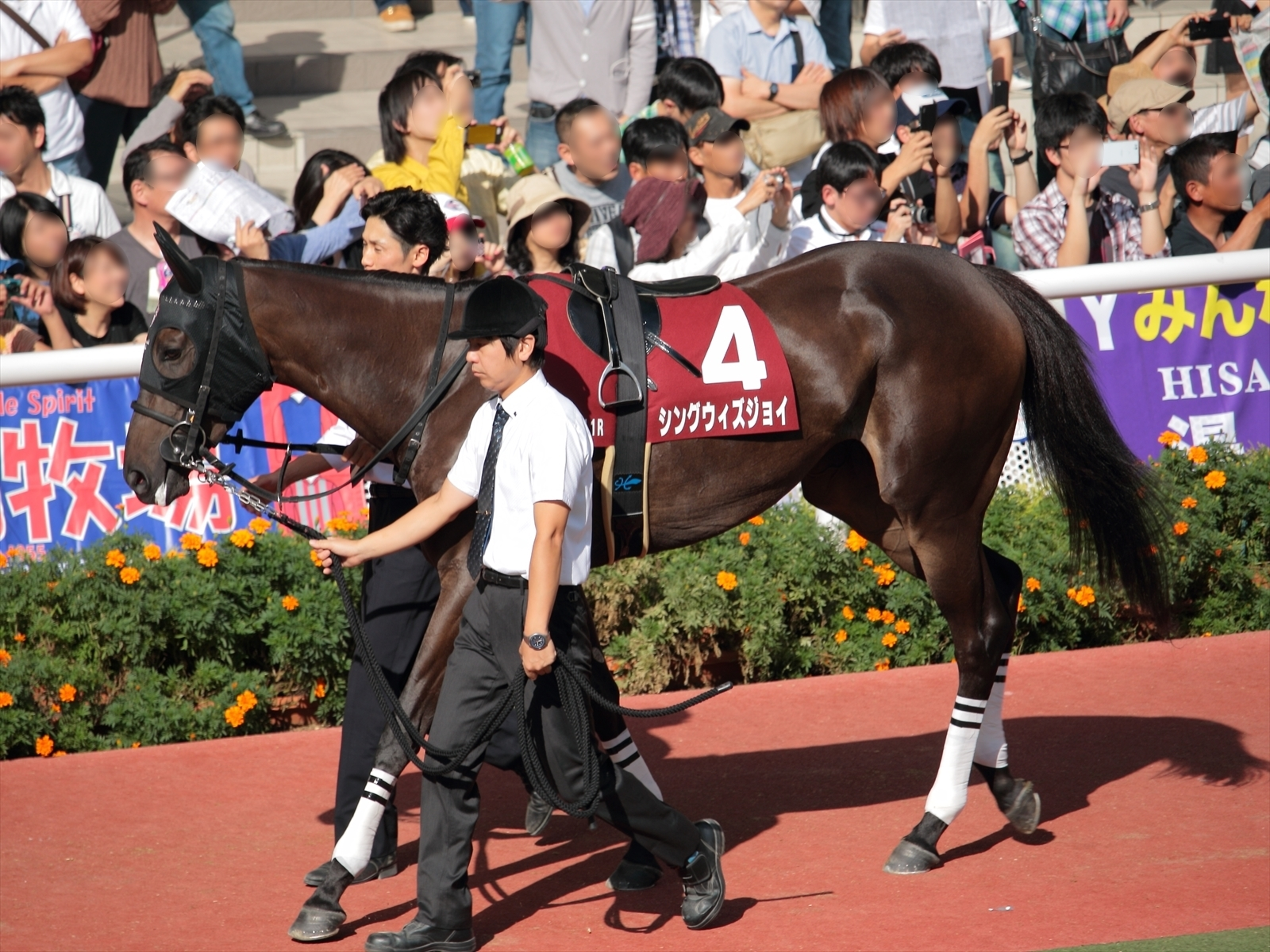 Sing with Joy (Racehorse of Japan).